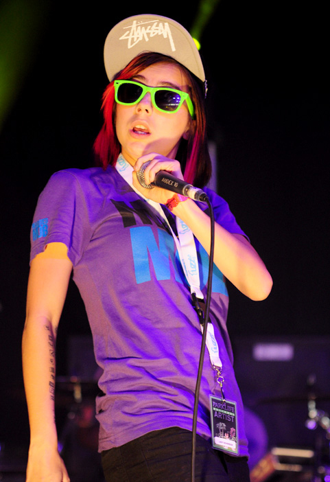 Lady Sovereign at Parklife 2009, Wellington Square.